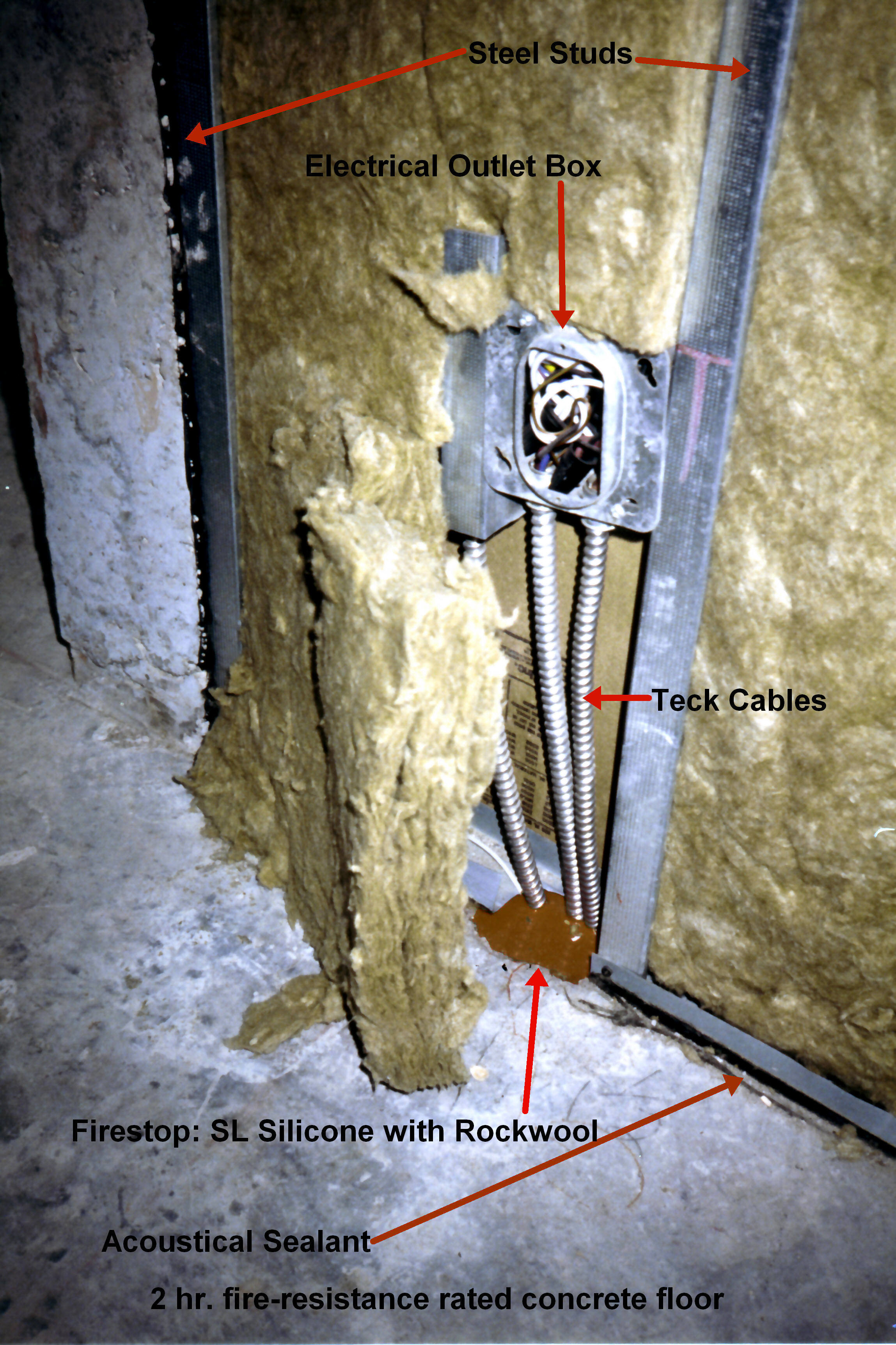 Rockwool stud cavity insulation inside a drywall assembly under construction, showing the completed firestop (made of stuffed rockwool packing topsealed with self-leveling silicone firestop caulking), together with teck (armoured) cable penetrants leading to an electrical outlet box.